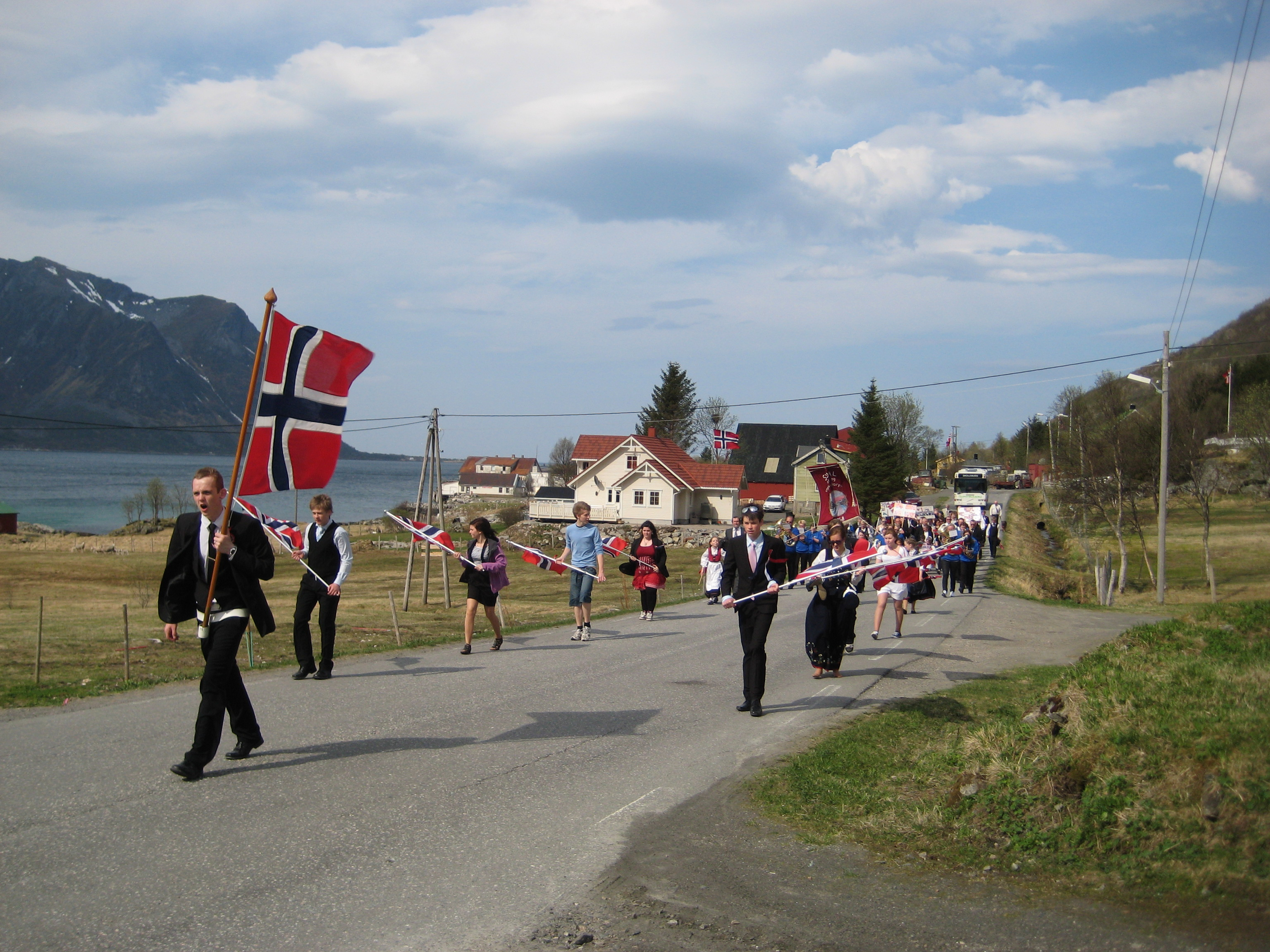 17 May celebration in Gravermarka, Lofoten 2010.